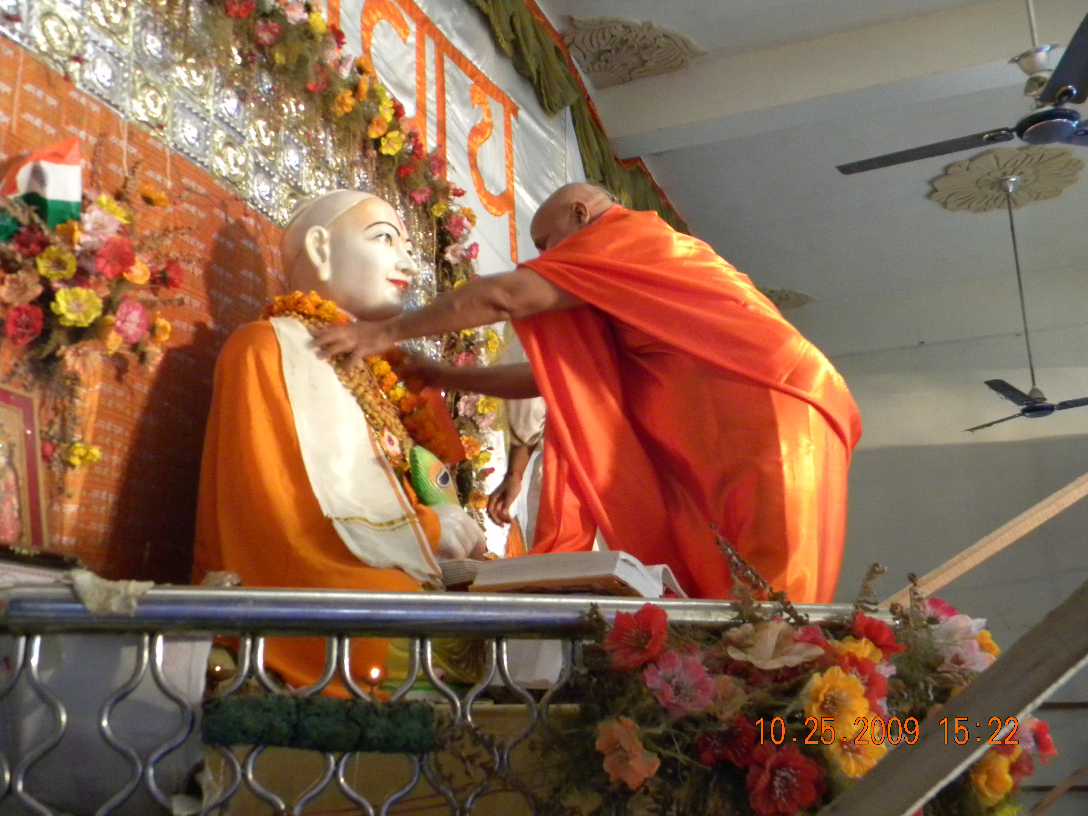 Jagadguru Ramabhadracharya garlanding the statue of Tulasīdāsa at Manas Mandira, Tulsi Peeth, Chitrakut